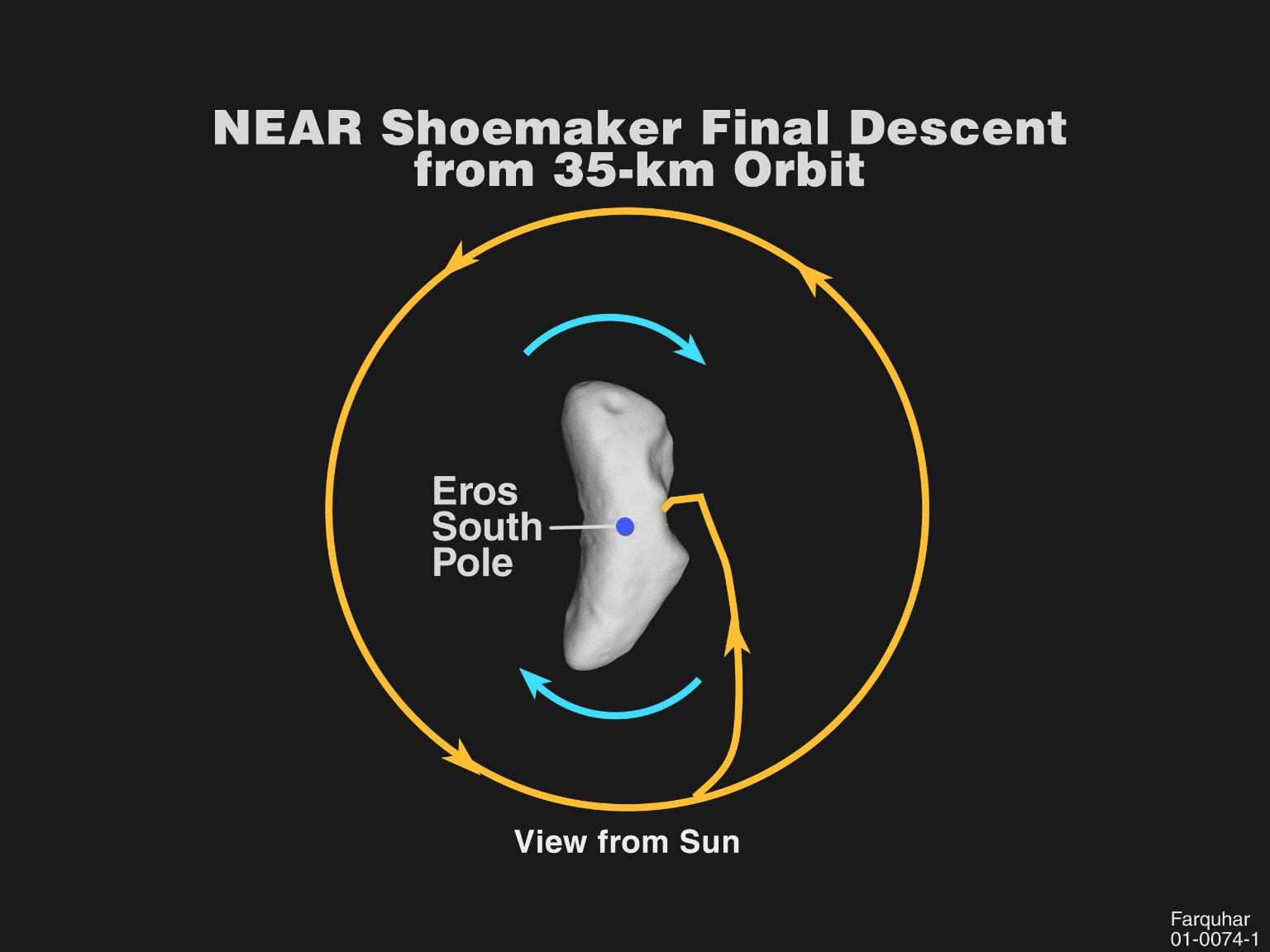 NEAR Shoemaker final descent from 35-km orbit